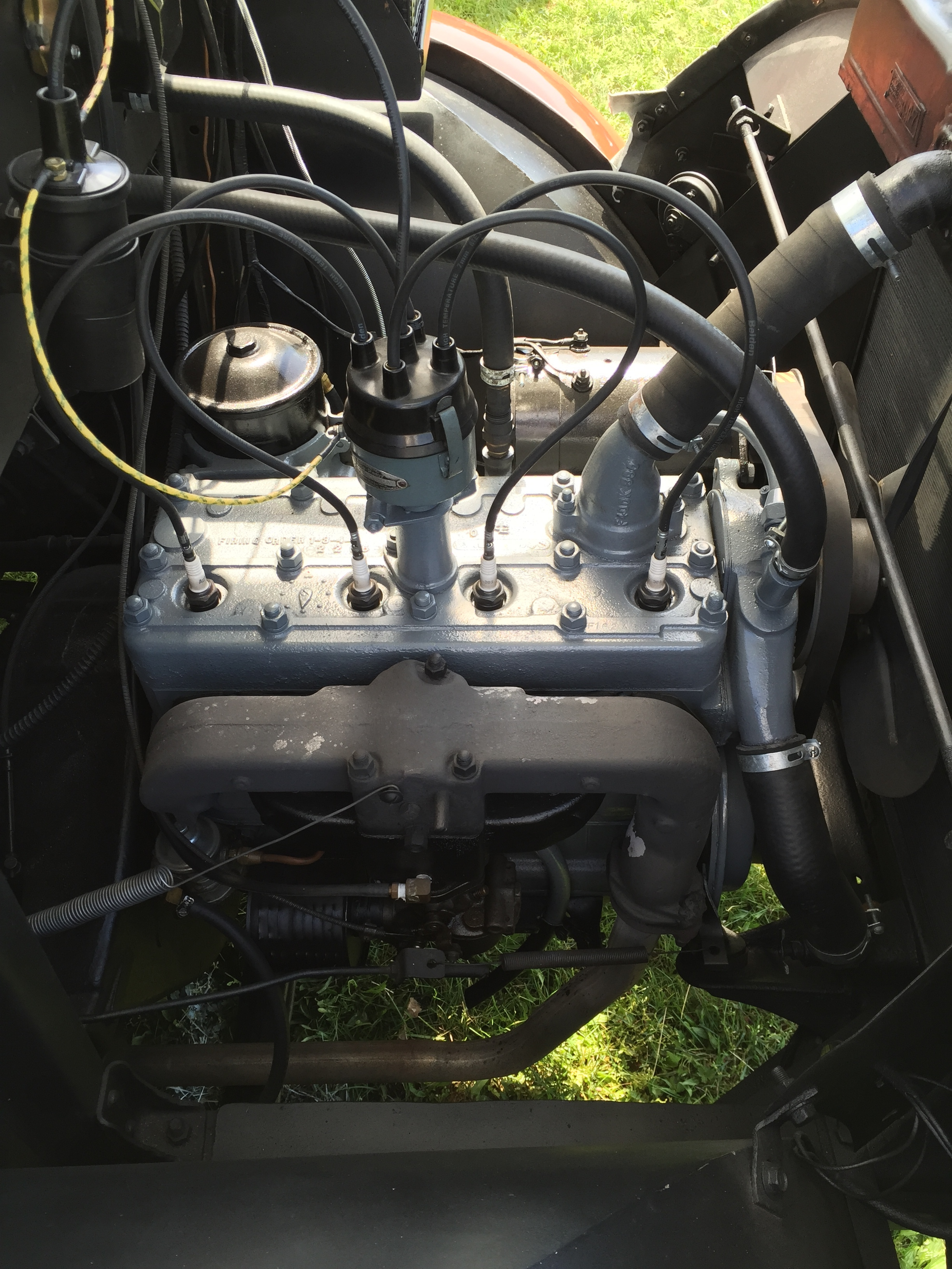 The four-cylinder Continental engine in a 1948 Divco delivery truck in Hull's Dairy (Waynesboro, Pennsylvania) livery. This truck is restored to brand new condition. Photographed at 2015 Shenandoah Antique Automobile Club of America (AACA) meet.